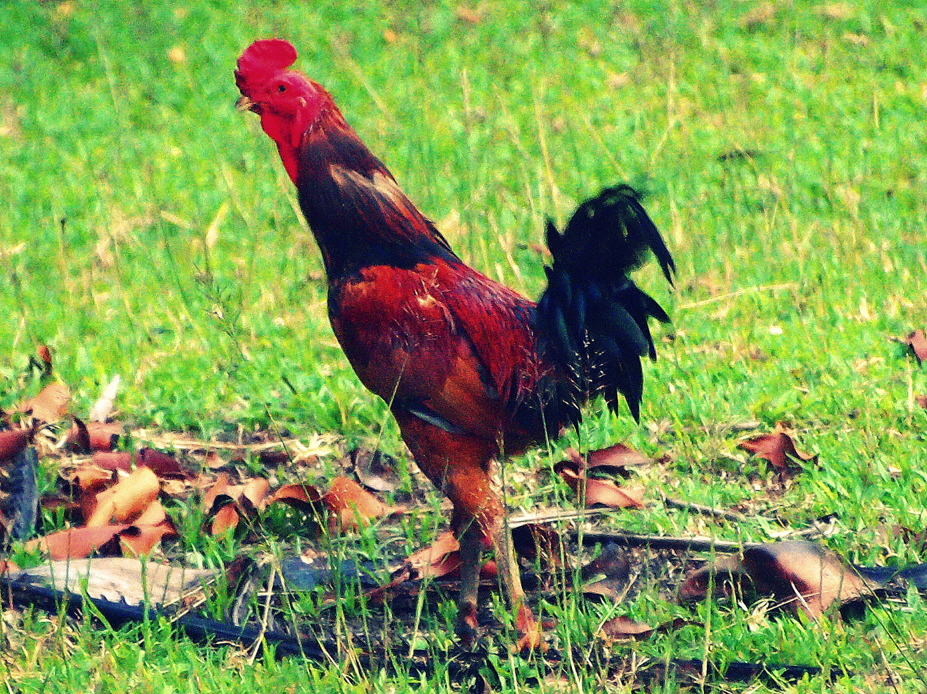 Gallus domesticus / Ayam kampung jantan